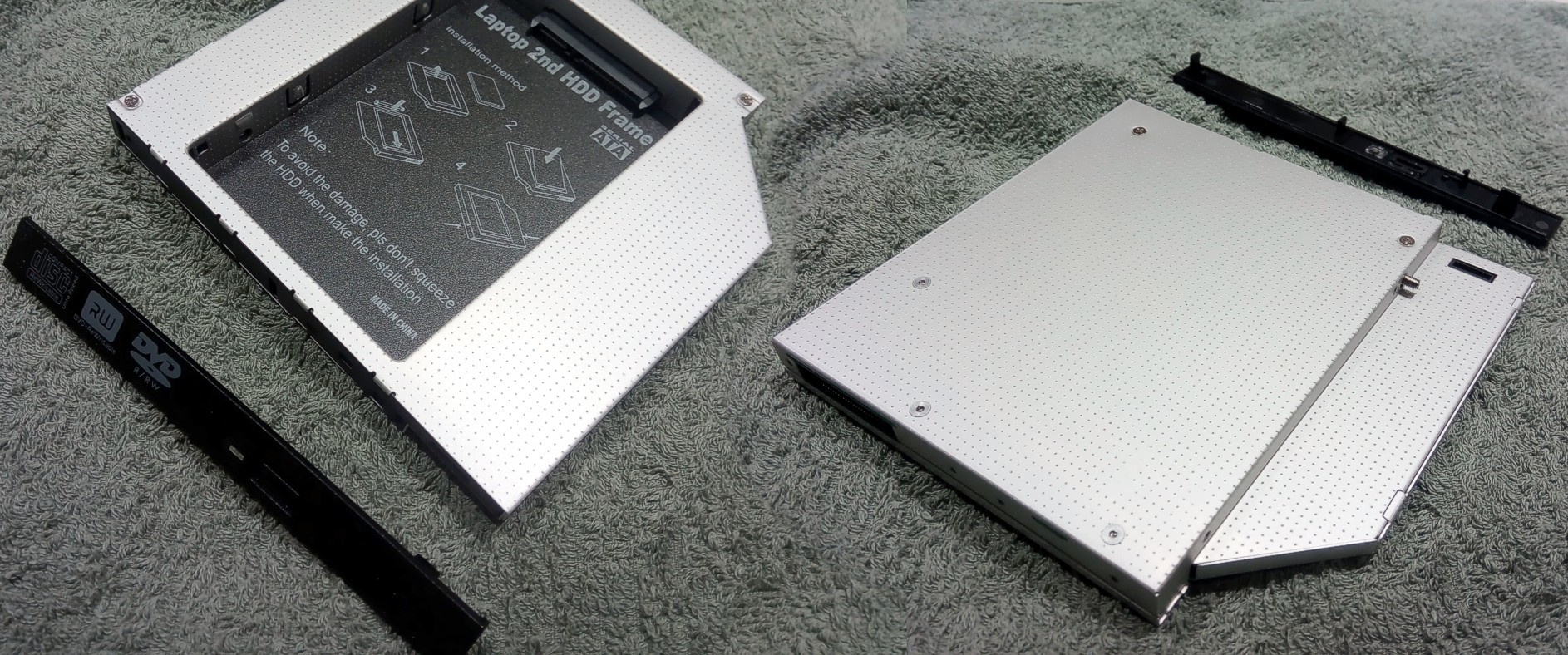 Caddy PATA (ATAPI) for SSD or HD SATA to be used instead of the optical reader of a laptop